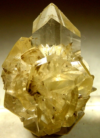 Gypsum (Var.: Gypsum) Locality: Red River Floodway, Winnipeg, Manitoba, Canada (Locality at ) On a recent trip to Winnipeg, we picked up 10 very unusual specimens of different sorts from the guy who mines them in the clay of the Red River Floodway. This one has the familiar ball shape, but instead of the normally golden-sherry color, the crystals are gem-clear. A single sharp, gemmy crystal rises in one place to crown the specimen. 4 x 2.8 x 2.8 cm